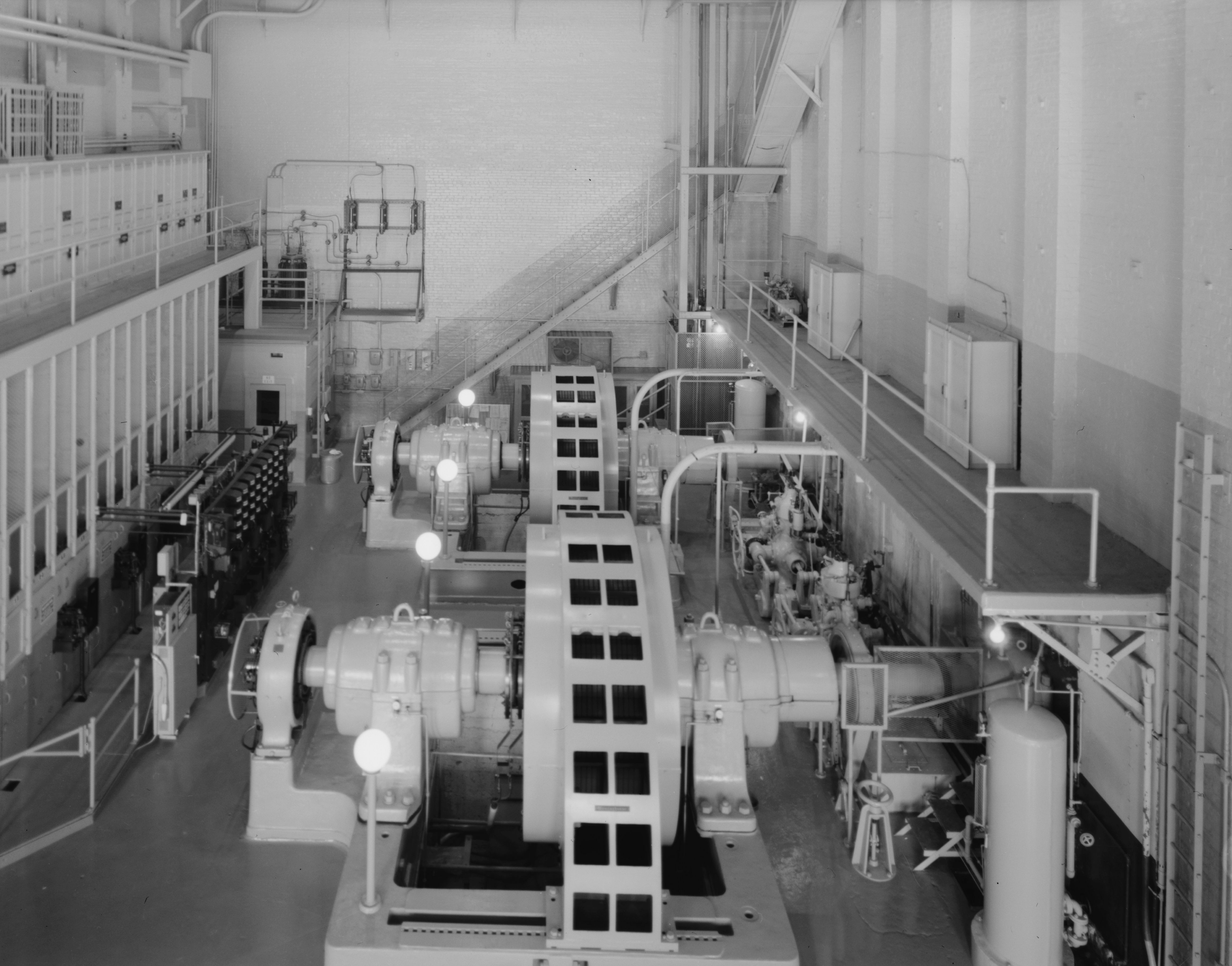 Map of area A view of the Croton Dam, a dam and powerplant complex, built 1907, on the Muskegon River in Croton Township, Newaygo County, Michigan. This image is from within the powerhouse, the reddish spot about midway between D and A on the locator map at right. It is an image of the generators. HAER title: 9. LONG VIEW NORTH, INTERIOR OF GENERATOR BUILDING HAER MICH,62-CROTO.V,1B-9